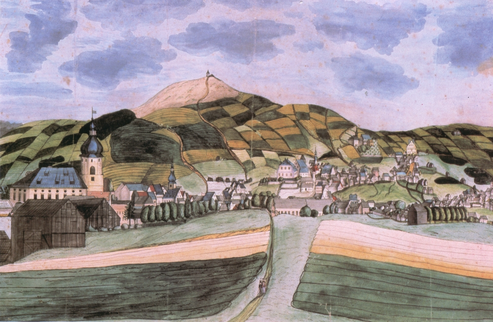 Aš, 1825